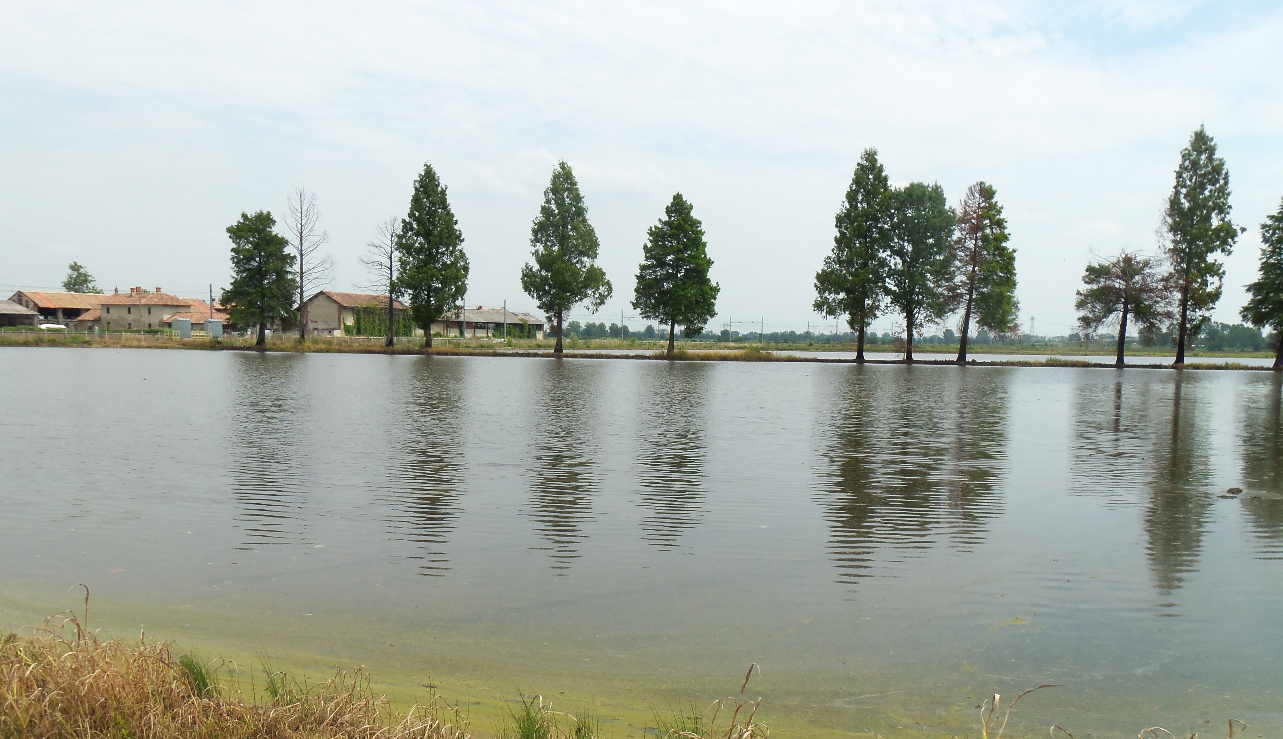 Paddy fields in Vermezzo, near Milano, in springtime